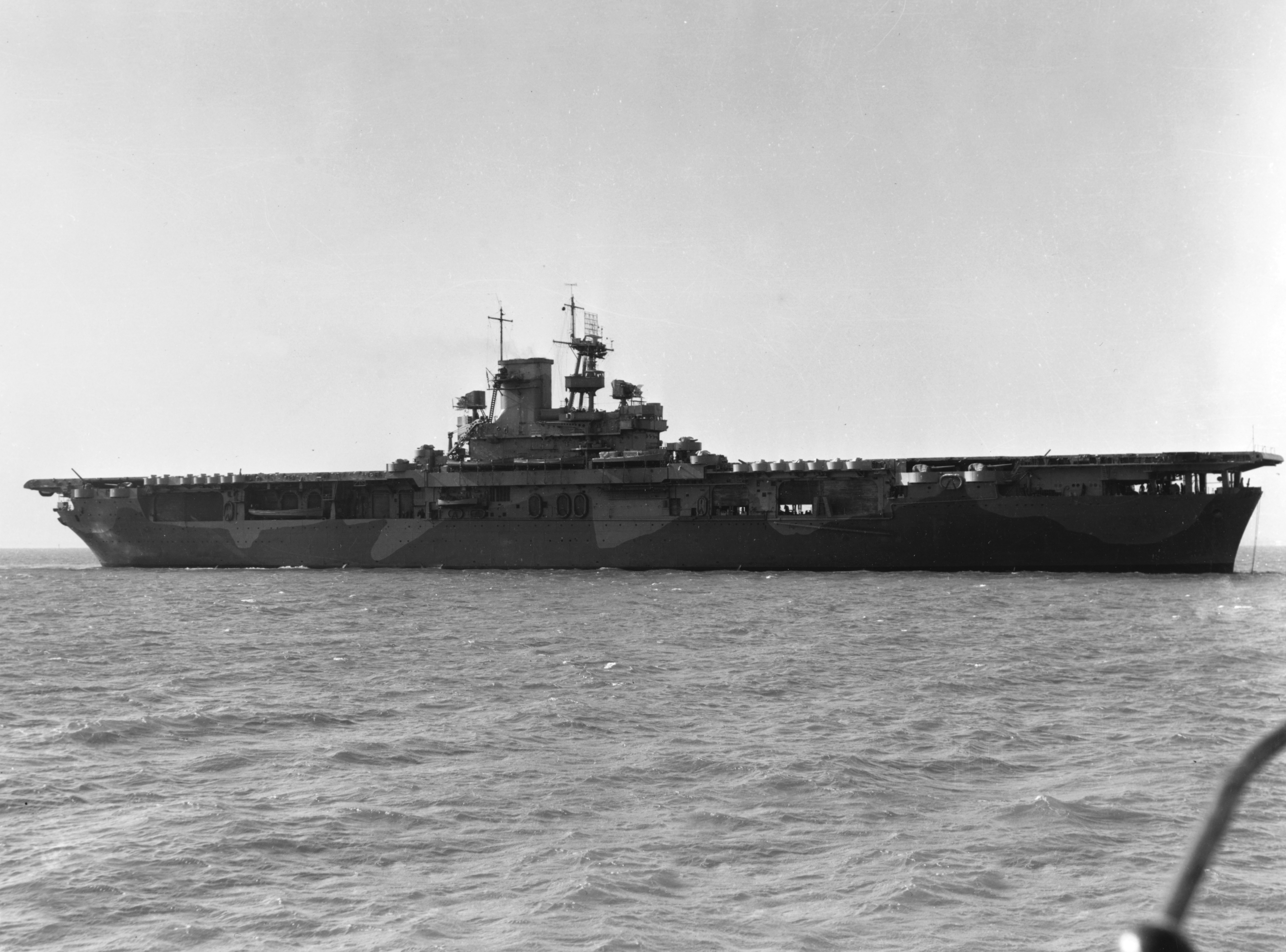 The U.S. Navy aircraft carrier USS Wasp (CV-7) off the Norfolk Navy Yard, Portsmouth, Virginia (USA), on 8 January 1942, following overhaul. Wasp is painted in a Measure 12 (Modified) camouflage pattern.